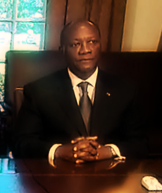 Portrait of President Alassane Ouattara, during a press conference with President Barack Obama and three other African leaders, on the 29th of July 2011.